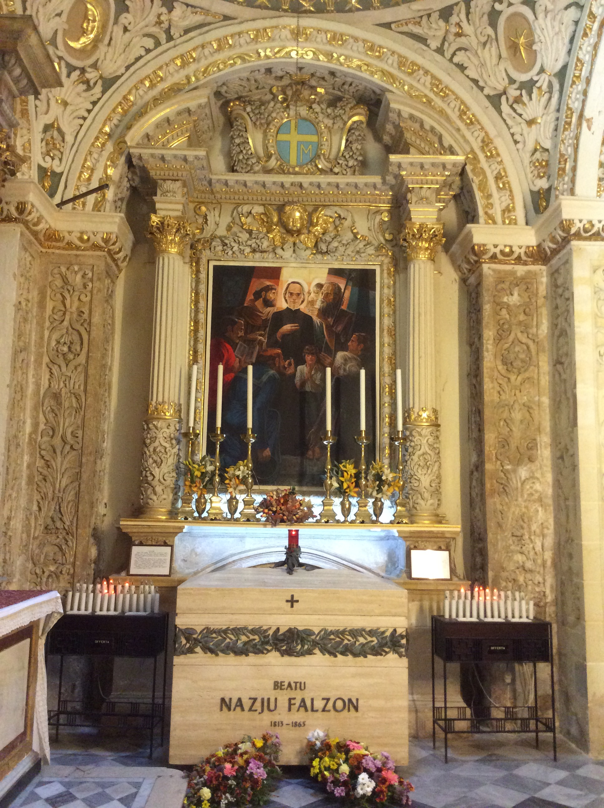 Ta Giezu Church